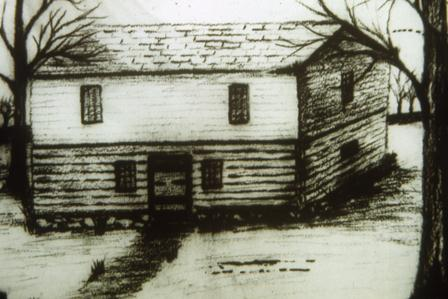 This photo is a sketch of the second Geauga County Courthouse to be built on the town square in Chardon, Ohio